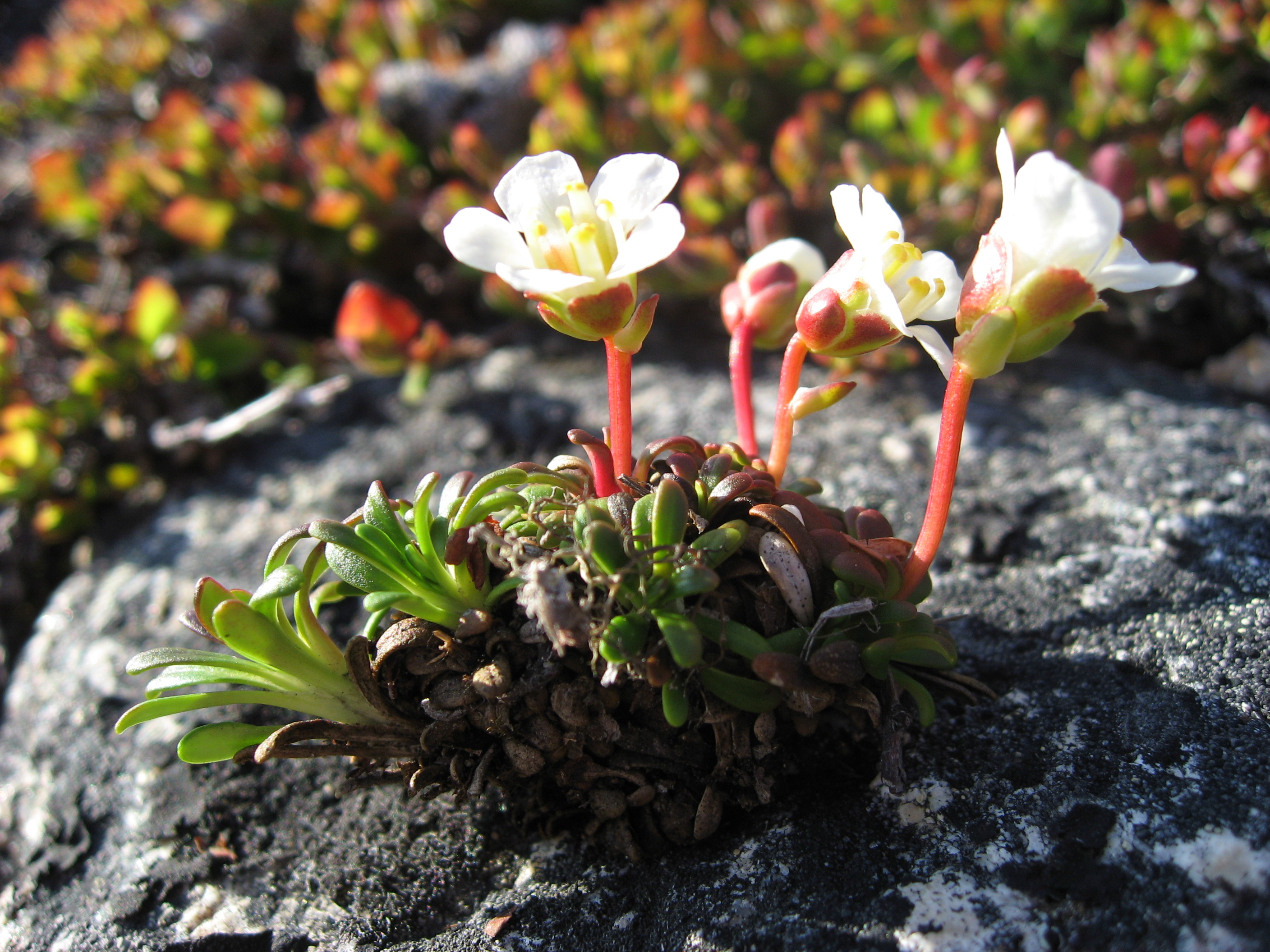 Pincushion plant (Diapensia lapponica) digged up and placed on a rock to get a better view of the plant. Photograped in Upernavik, Greenland